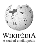 Wikipedia logo 2.0